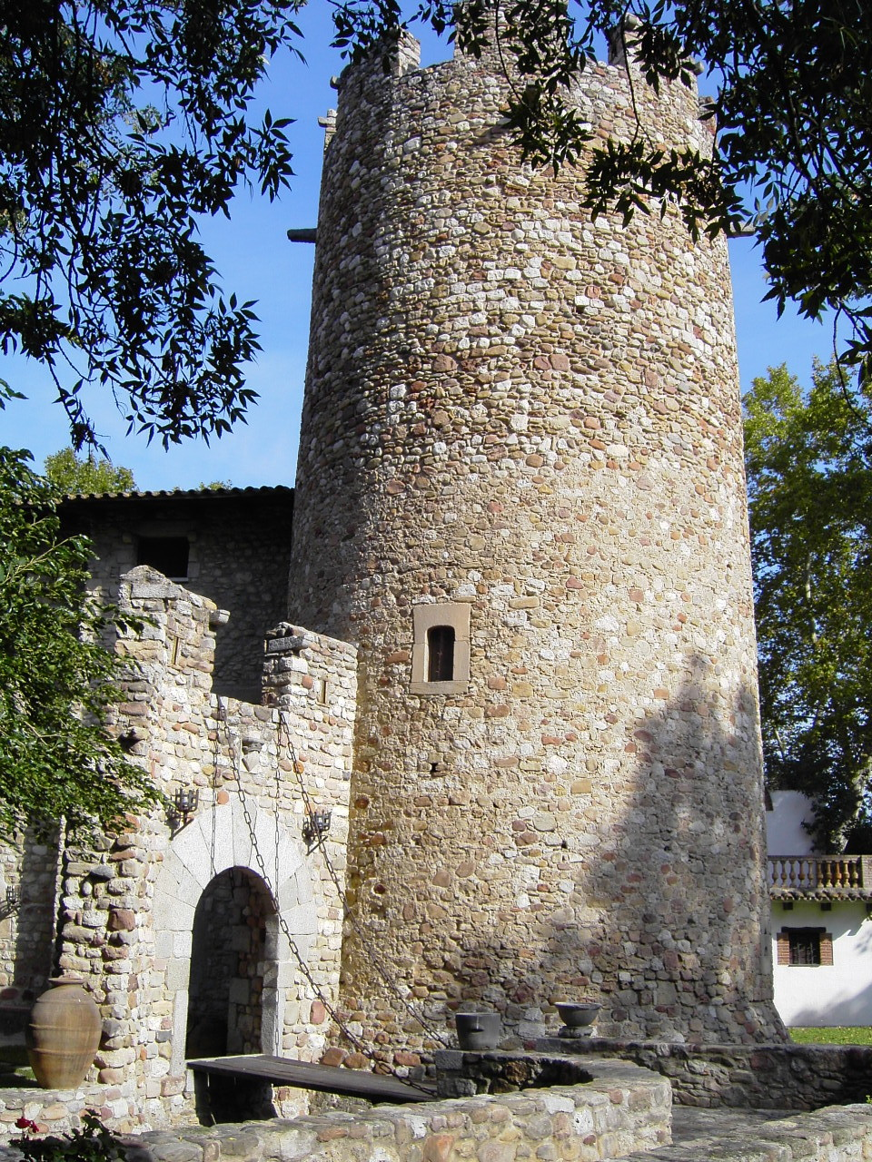 One of the towers of Torre de Cellers